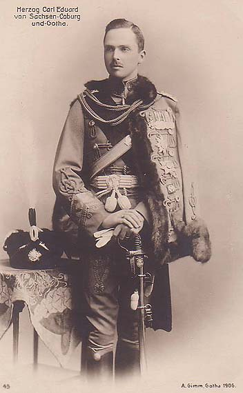 Charles Edward, Duke of Saxe-Coburg and Gotha (1884–1954)